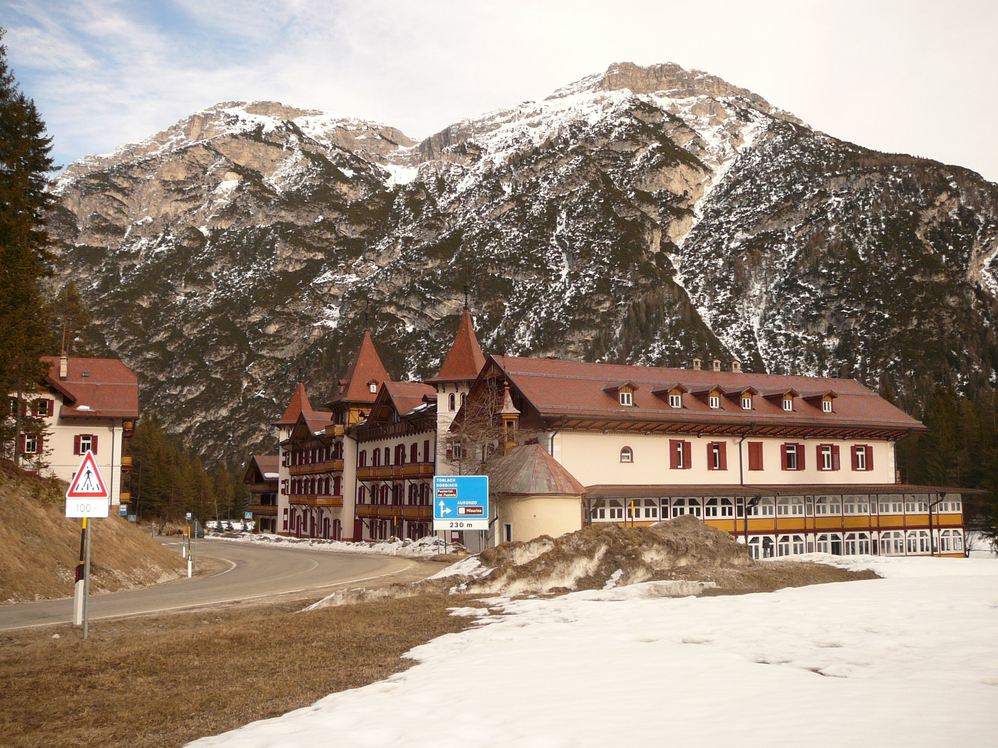 Carbonin/Schluderbach. background: Monte Piana